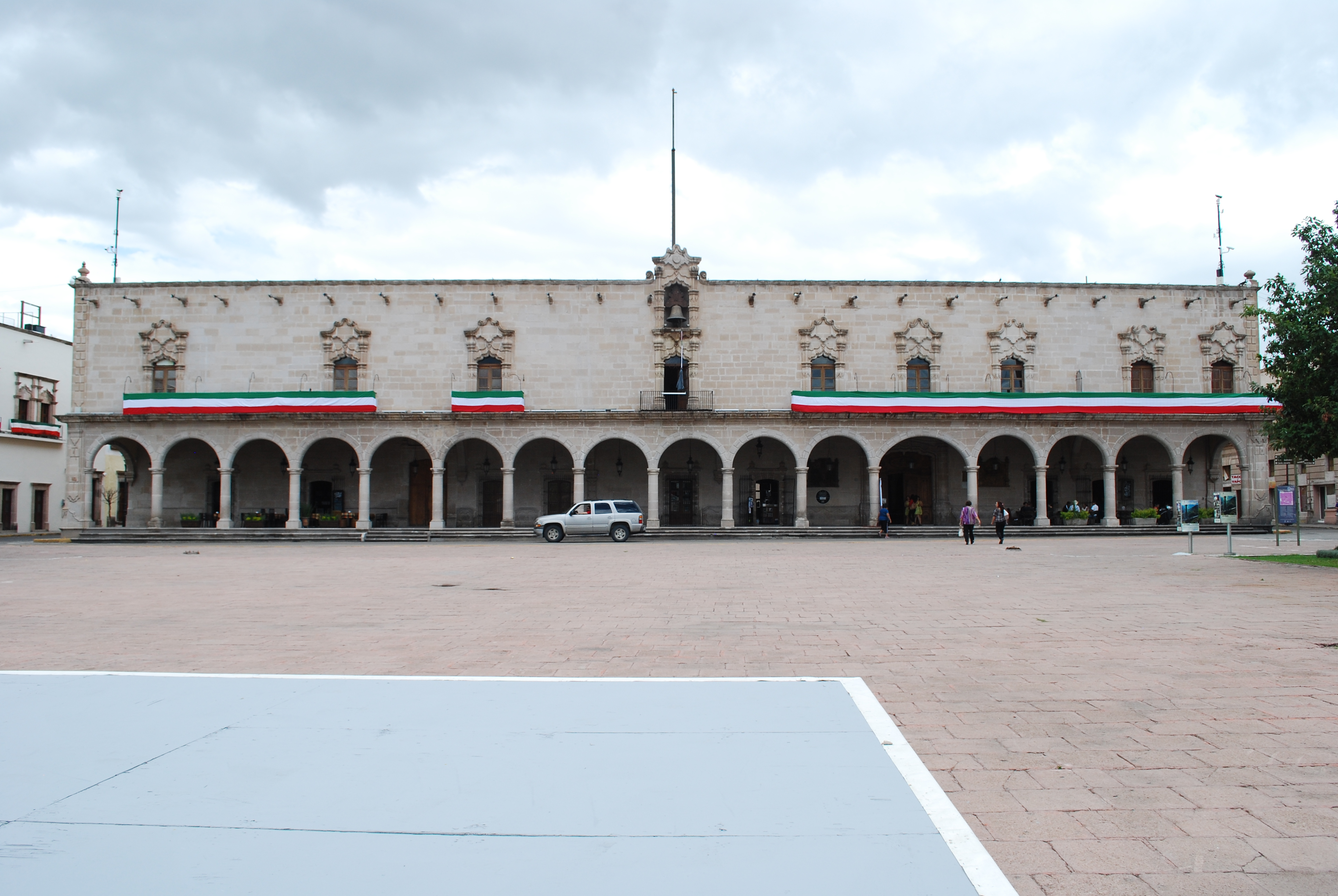 Plaza IV Centenario in Victoria de Durango, Mexico